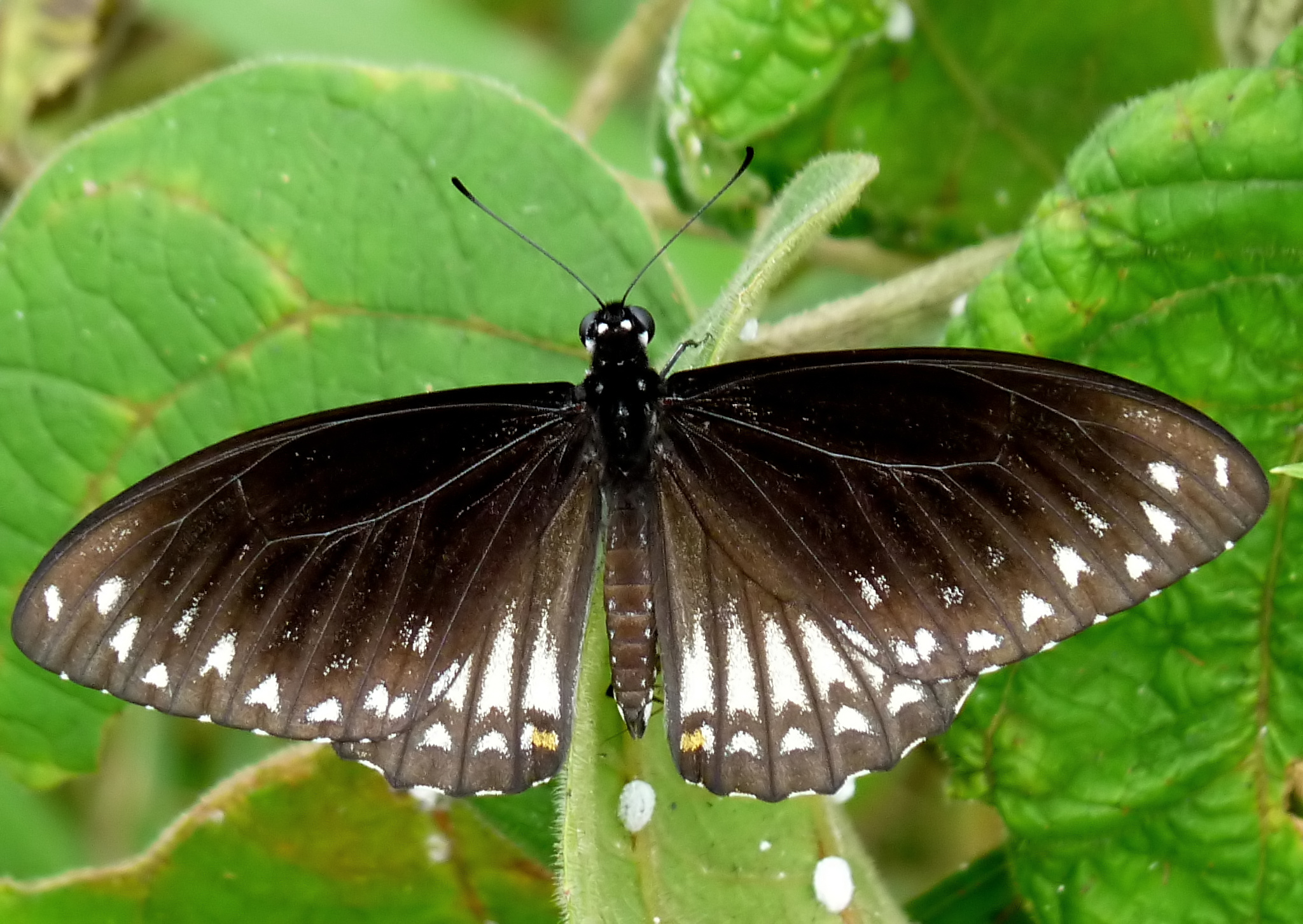 Papilio clytia form clytia, upper-side (mimics the Common Indian Crow, Euploea core) The Common Mime, Papilio clytia, is a Swallowtail butterfly found in South and South-east Asia. The butterfly belongs to the Chilasa group or the Black-bodied Swallowtails. It serves an excellent example of a Batesian mimic among the Indian butterflies. Taken at Kadavoor, Kerala, India